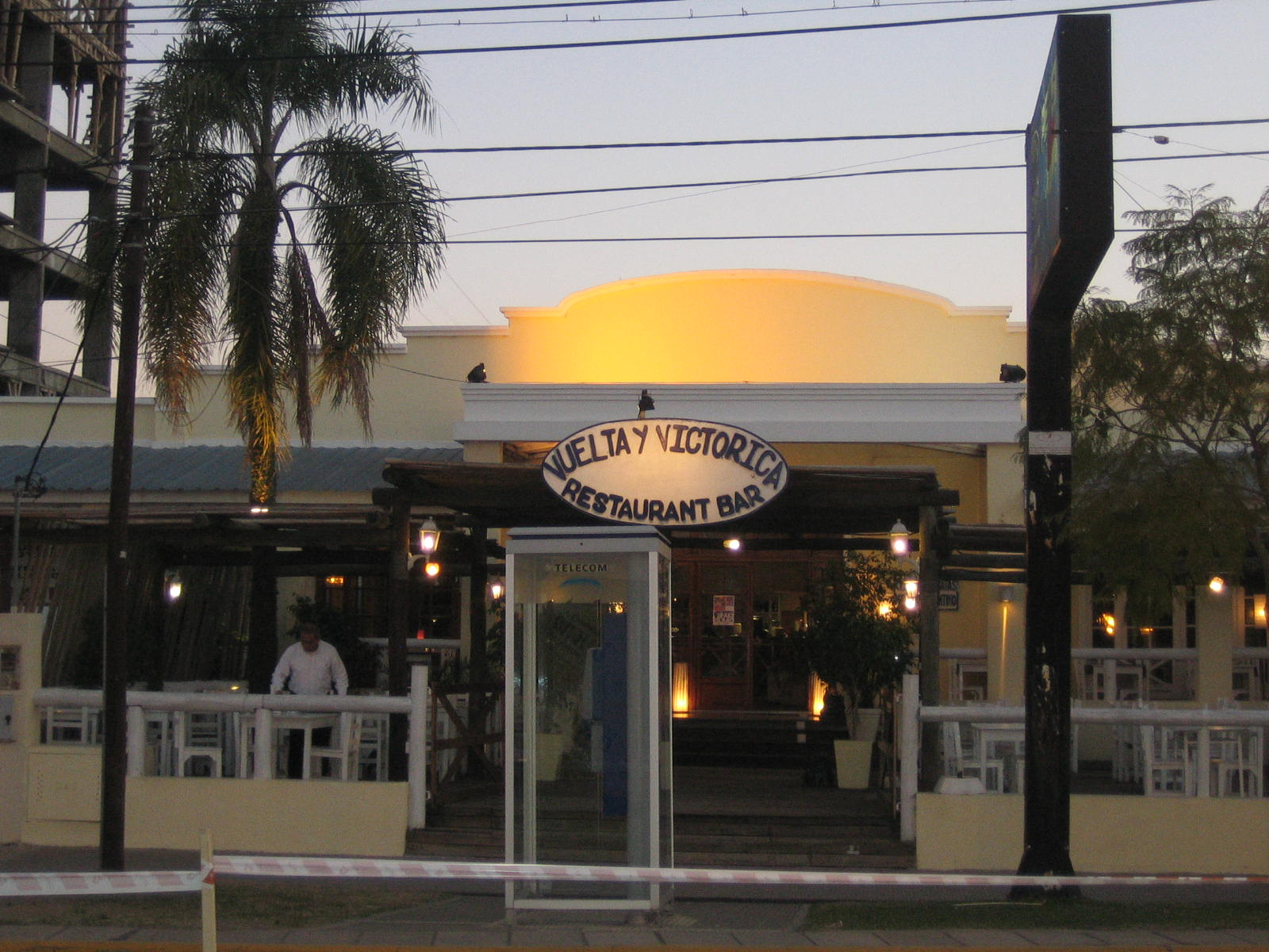 Club de Regatas Hispano Argentino - El Tigre - Buenos Aires - Argentina